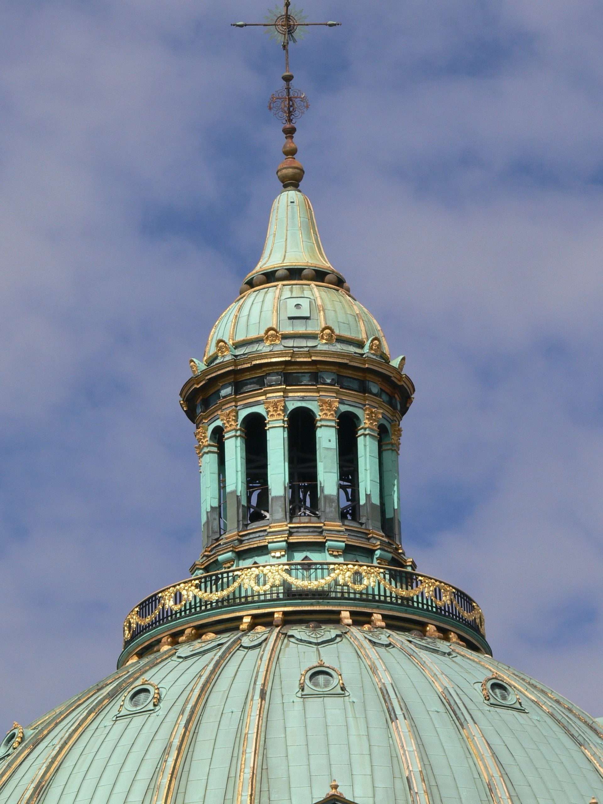 Marmorkirken ( Copenhagen ). Lantern on top of the cupola.